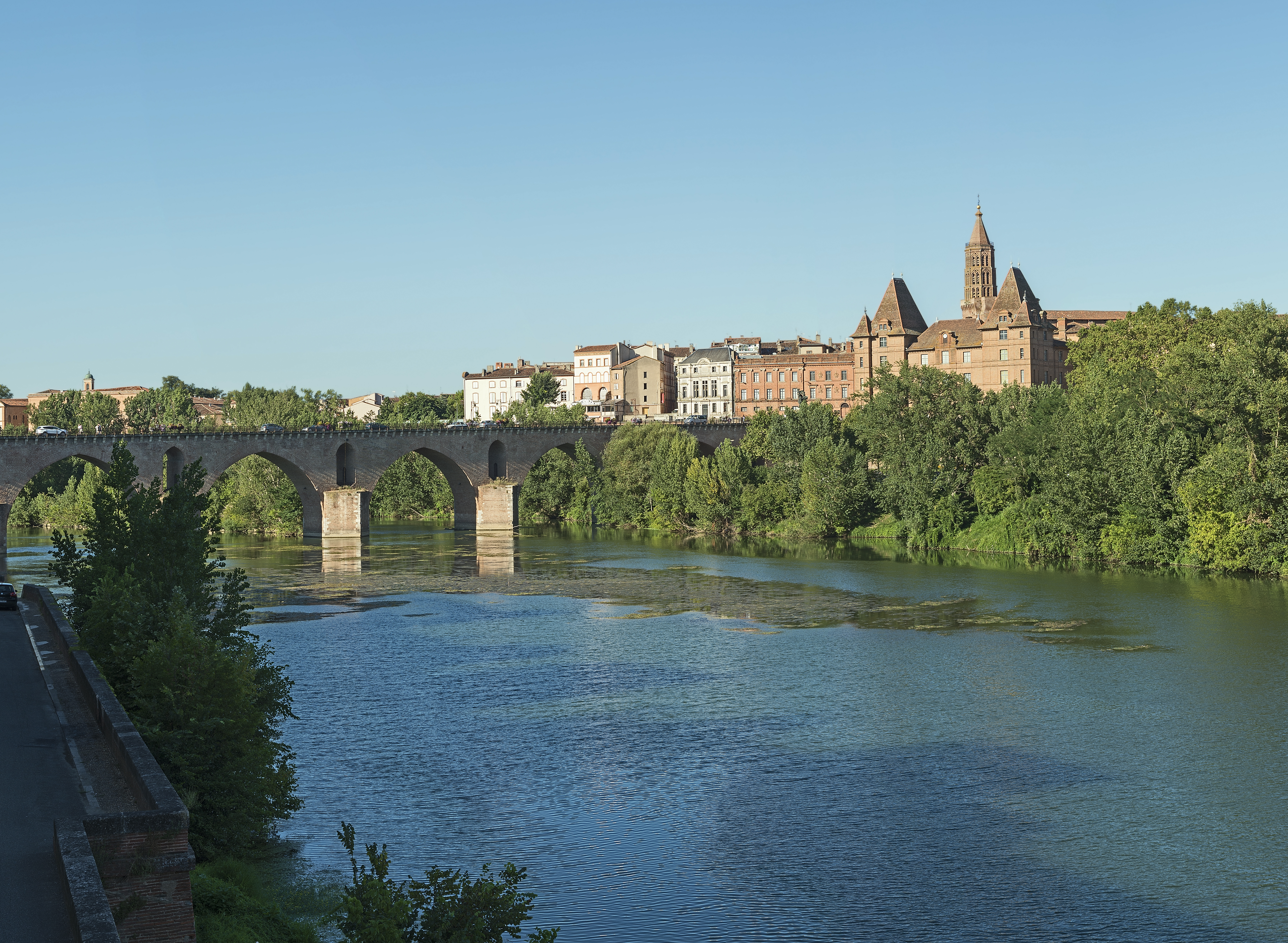 Pont Vieux, Montauban, Tarn et Garonne, France.